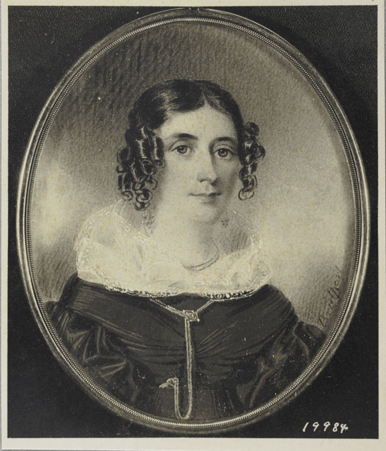 Title:Mrs. Jacob Broom. Author/Artist:Bridport, Hugh, 1794-approximately 1868 Creation Date:1814 Description:Graphic reproduction(s) with documentation of a miniature. 3 x 2 7/8 in. Provenance:(e) William L. Hacker, Philadelphia, Pennsylvania, great-grandson of the subject, 1930; (e) Edmund Bury, Philadelphia; (e) acquired from him in 1933 by Erskine Hewitt, New York (died May 1938); (e) Sale, Parke-Bernet Galleries, New York, Erskine Hewitt Collection, October 18-22, 1938, lot 1024 ($50). Current Repository:unlocated.